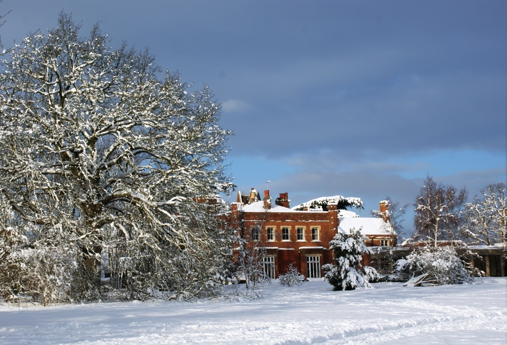 Park House, Whiteknights, Reading, Berkshire, in snow